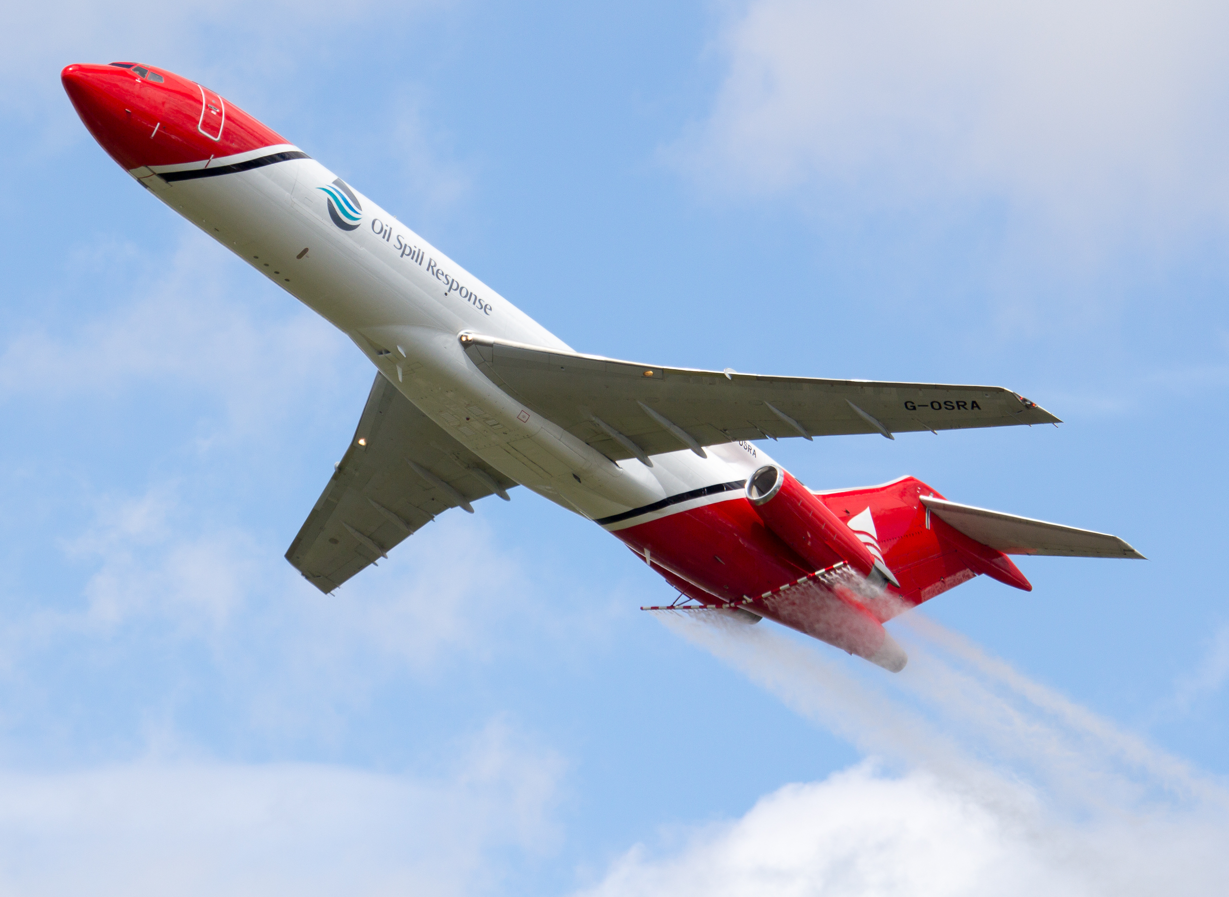 Oil Spill Response Boeing 727 G-OSRA performing at the 2016 Farnborough Airshow, displaying its dispersal system